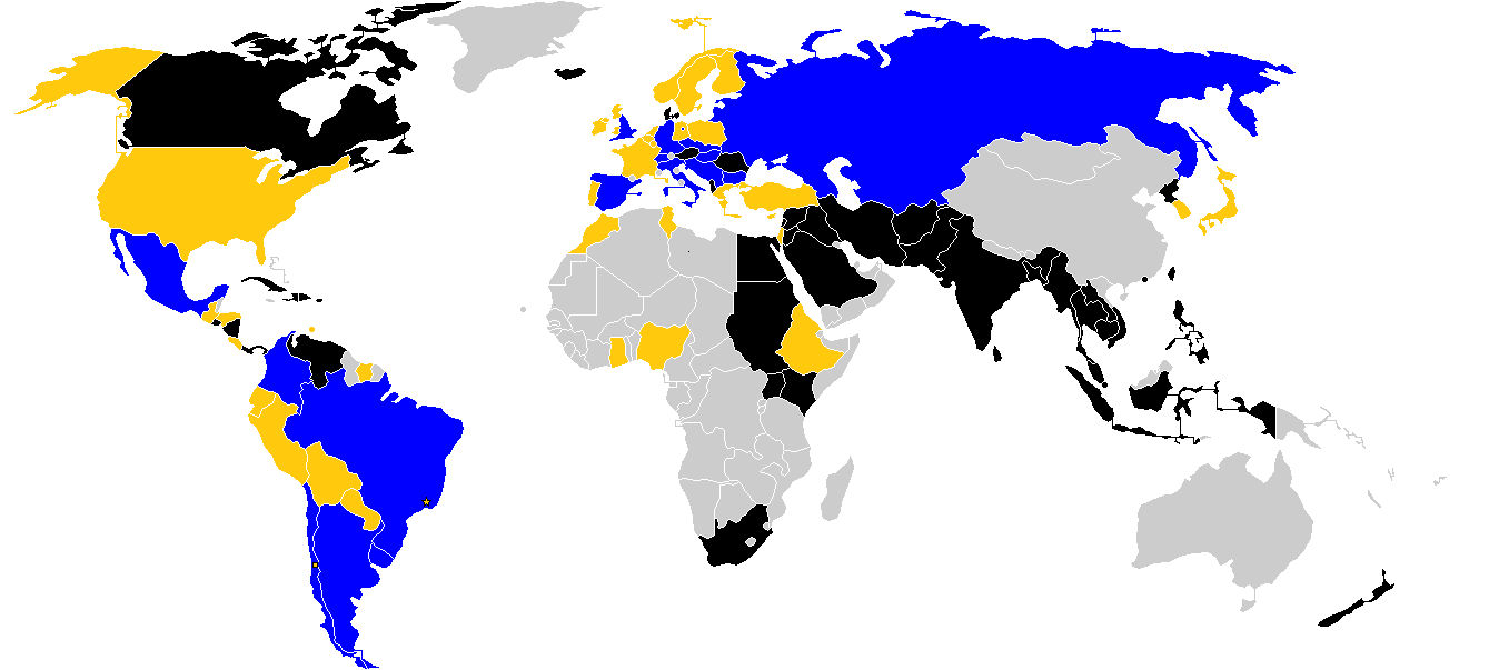 Status of countries with respect to 1962 FIFA World Cup: Qualified for World Cup finals Failed to qualify for World Cup finals Did not enter World Cup Not an associate member of FIFA